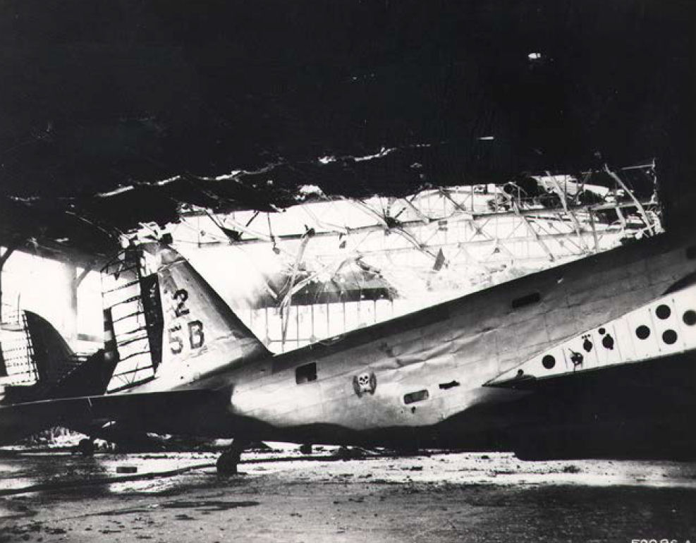 Headquarters 5th Bombardment Group - Damaged B-18s at Hickam Field, Hawaii, December 1941.